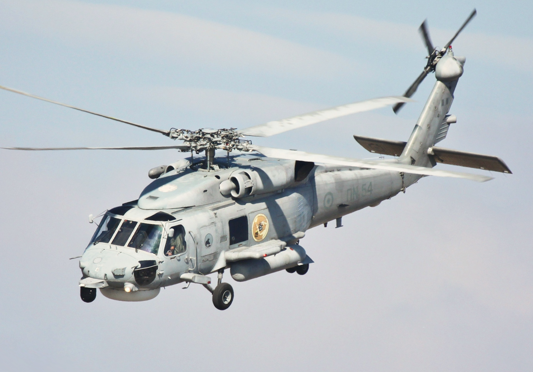 Sikorsky S 70B-6 Aegean Hawk